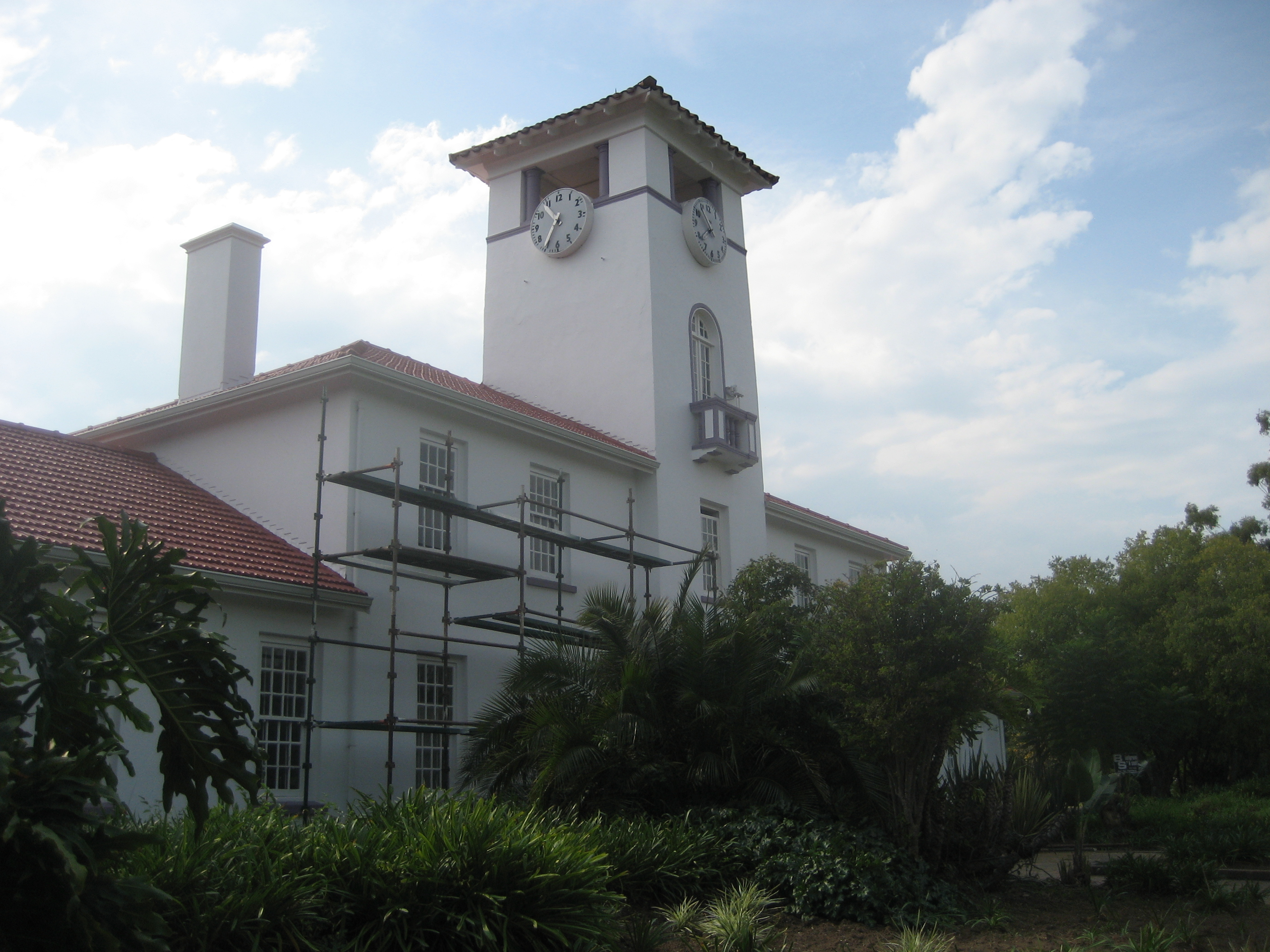 The Union, formerly Christian Union Hall of Fort Hare University, in 2016